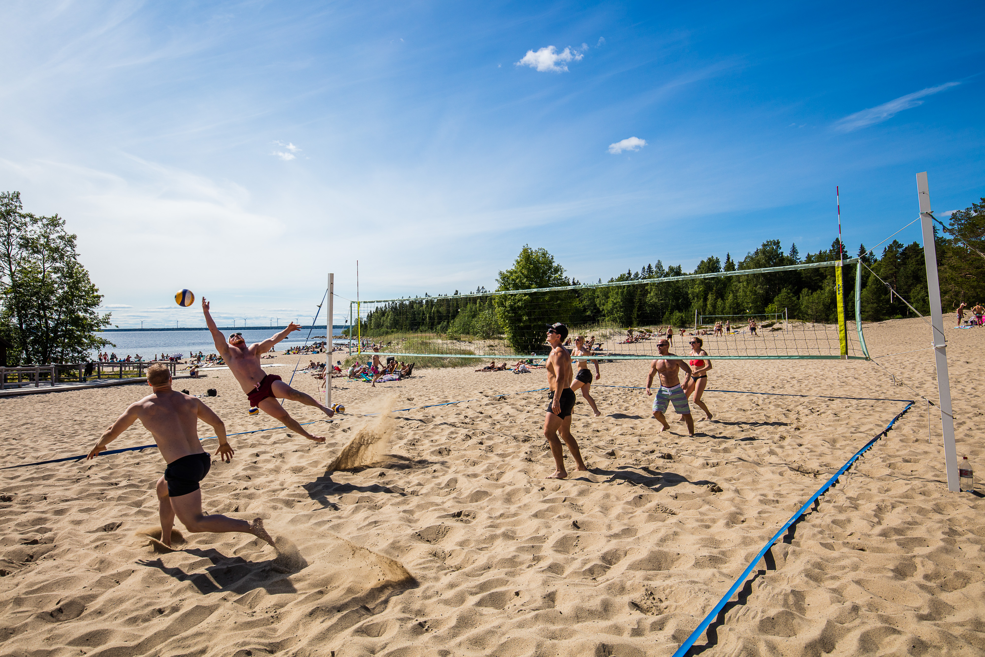 Bettnessand is a sea bath, som 20 km south from Umeå.